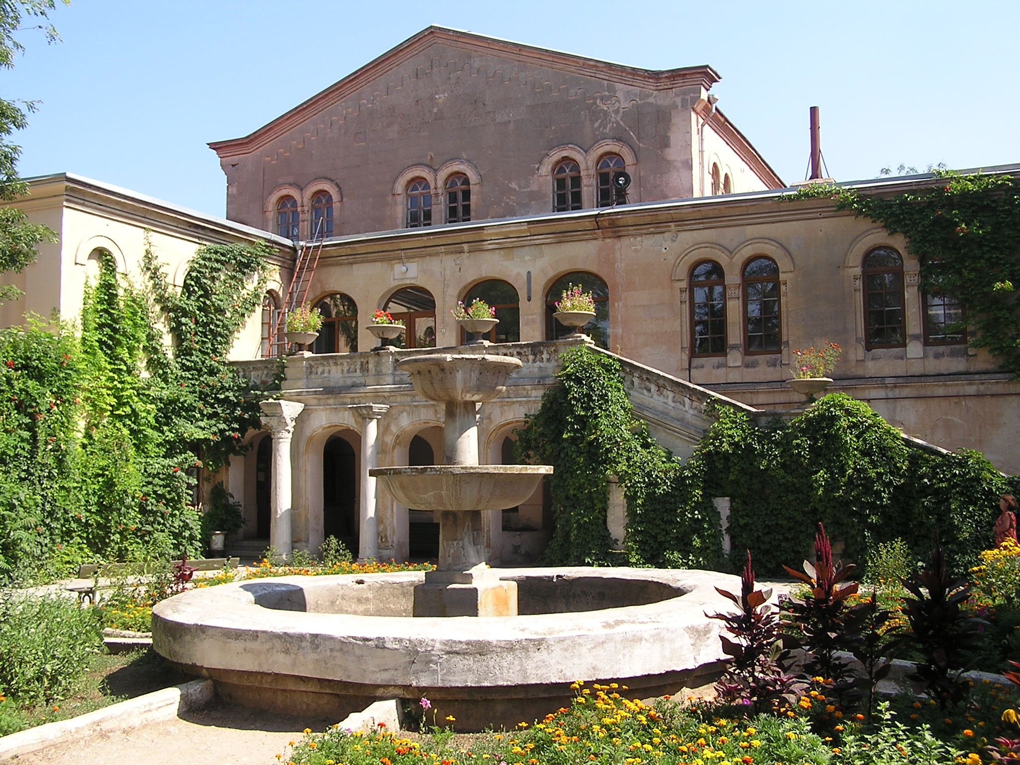 Chersones. Greek court